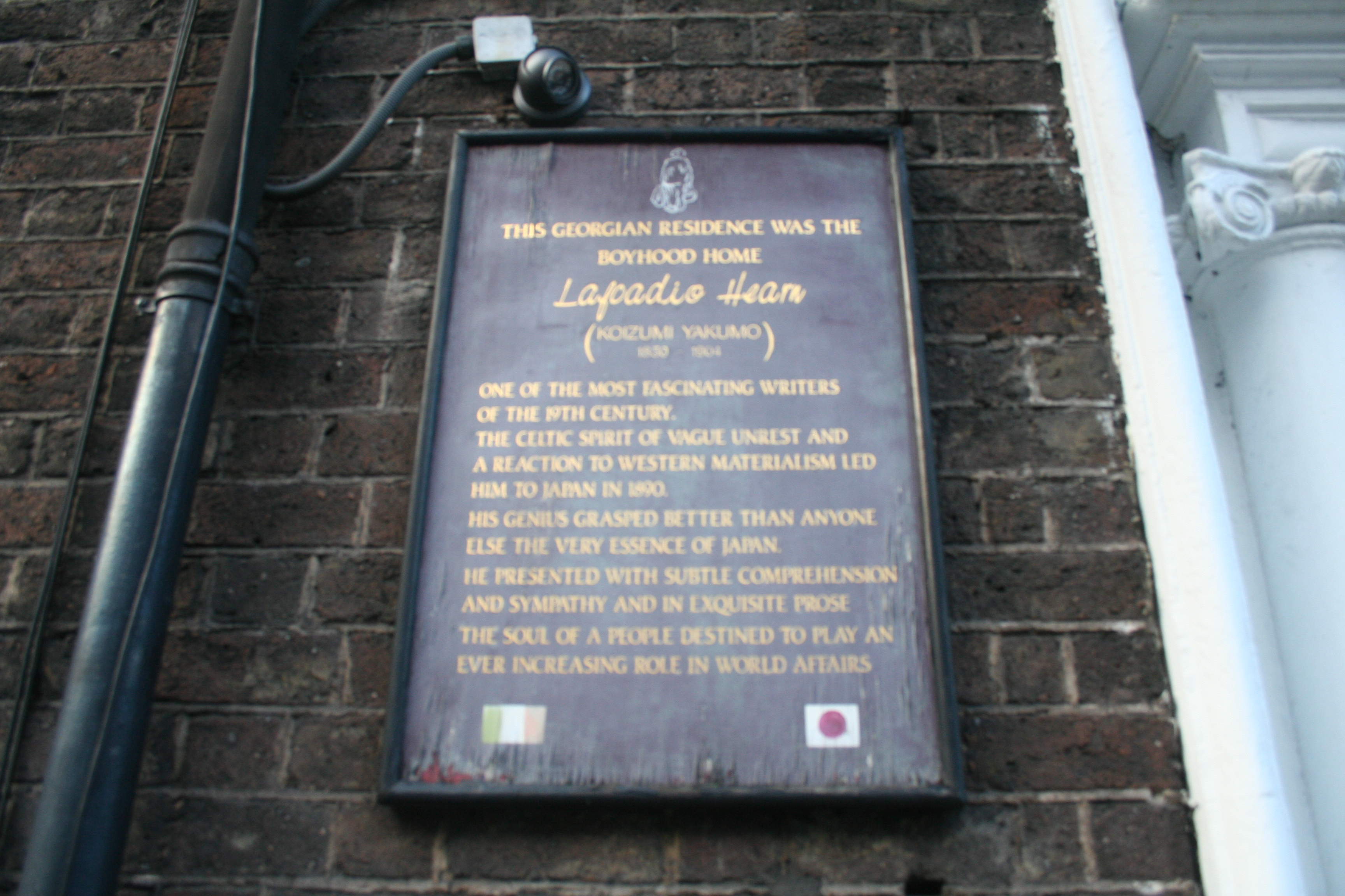 Commemorative plaque to Lafcadio Hearn (1850-1904), 48 Gardiner Street Lower, Dublin, Ireland. Detail.